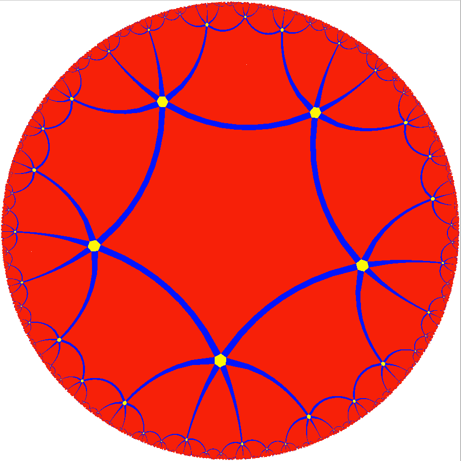 KaleidoTile, Topology and Geometry Software, Jeff Weeks Hyperbolic plane regular tiling: t0{5,6 }